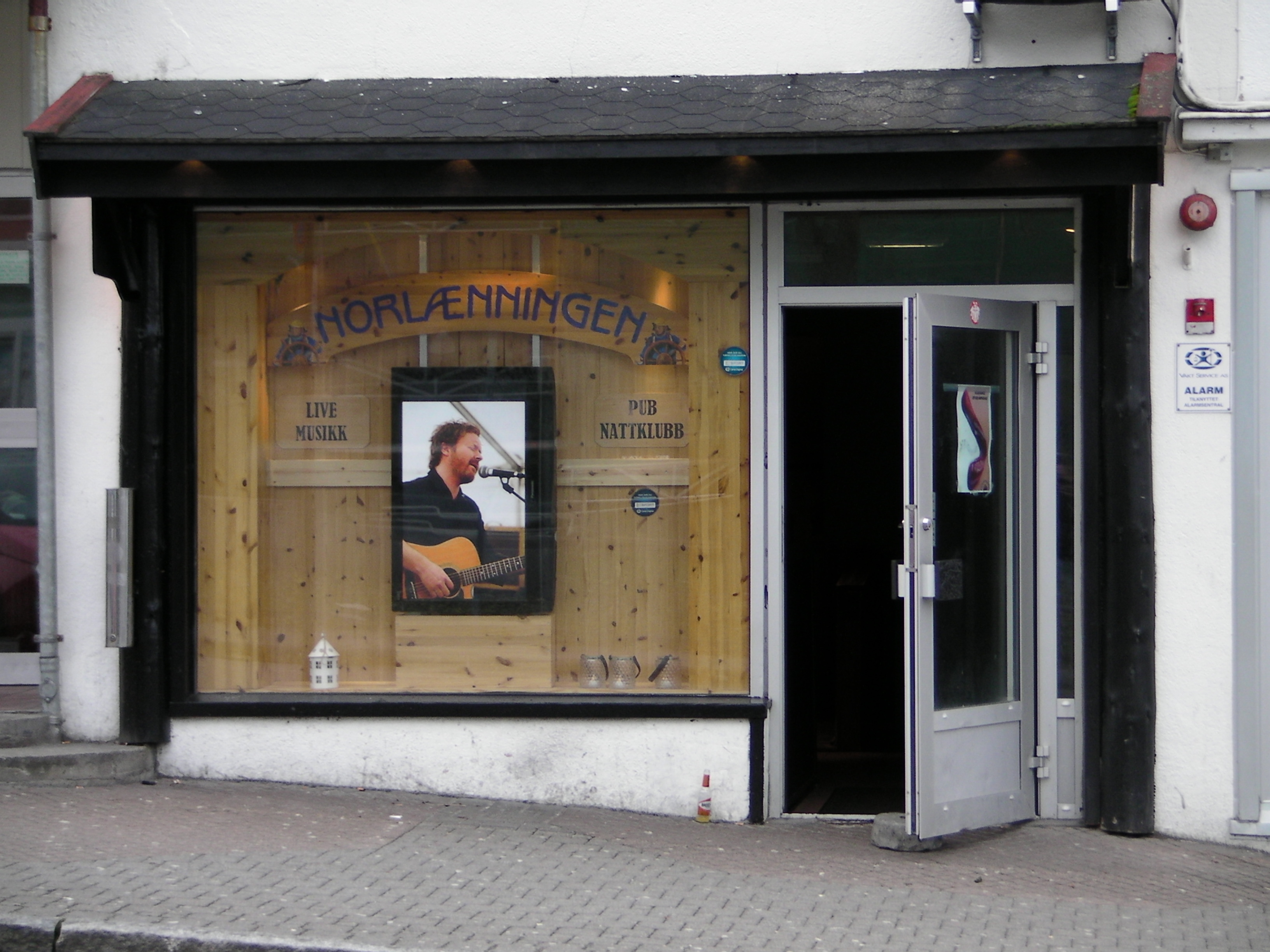 Norlænningen Bodø